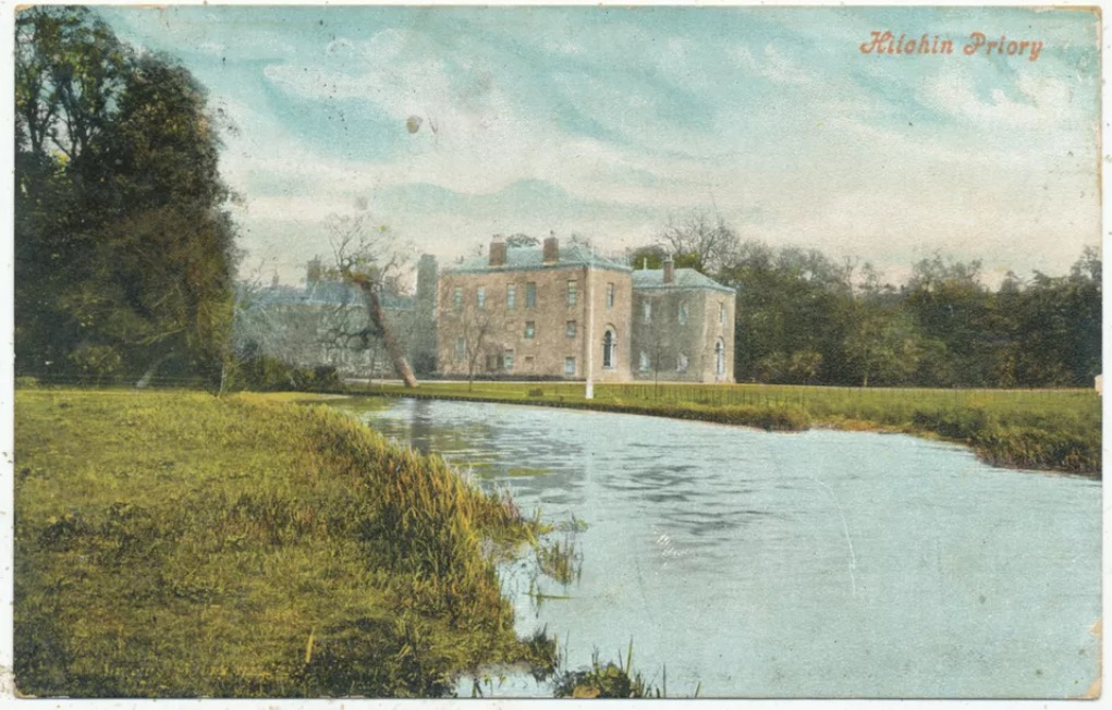 Hitchin Priory in Hitchin in Hertfordshire depicted in a colour postcard of 1907 - taken from an example in my collection